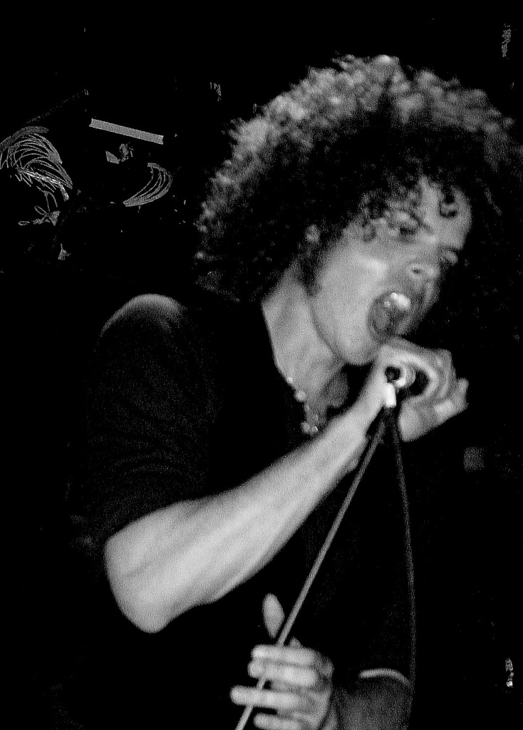 Wolfmother